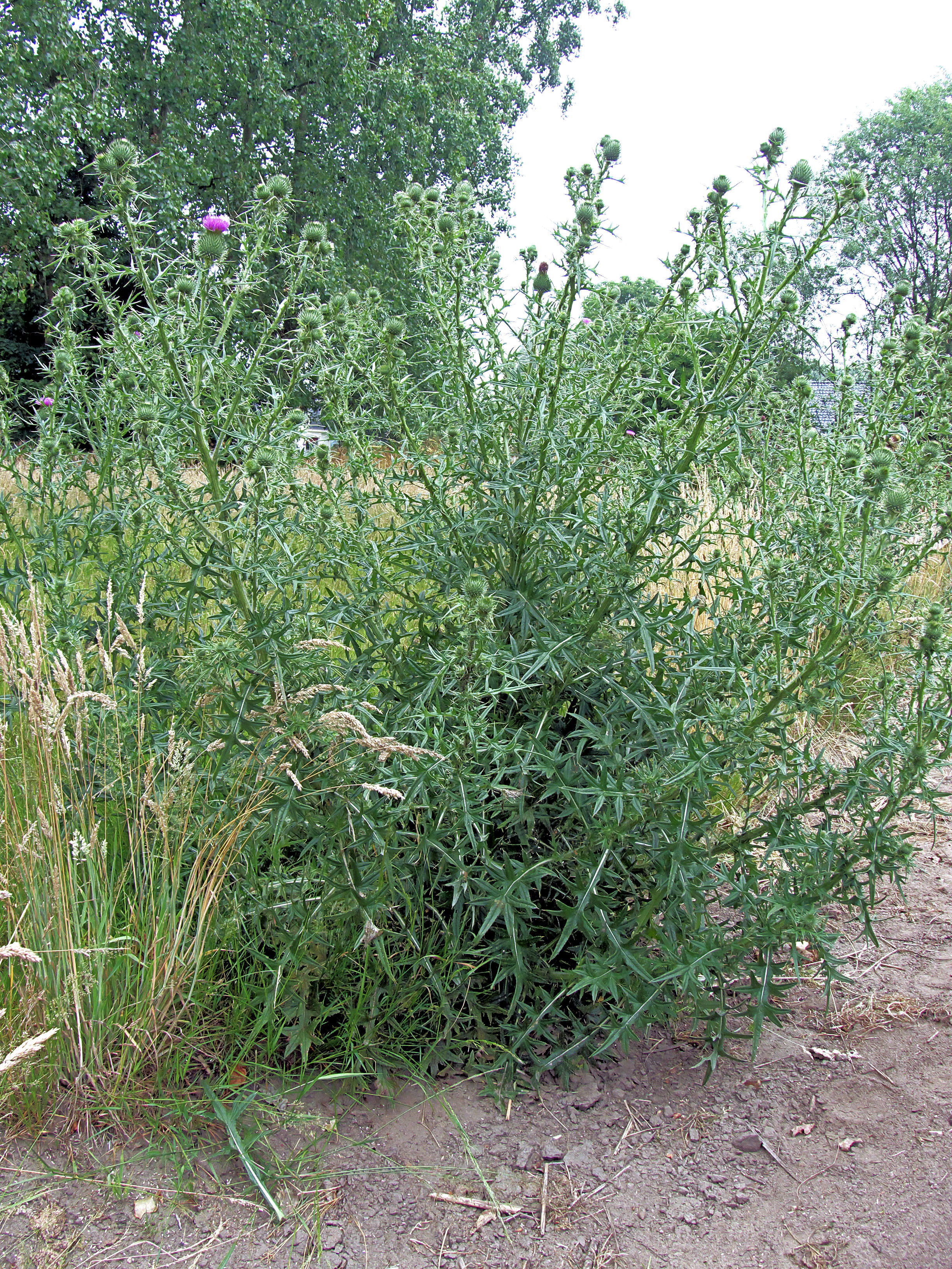 Cirsium vulgare plant flowering